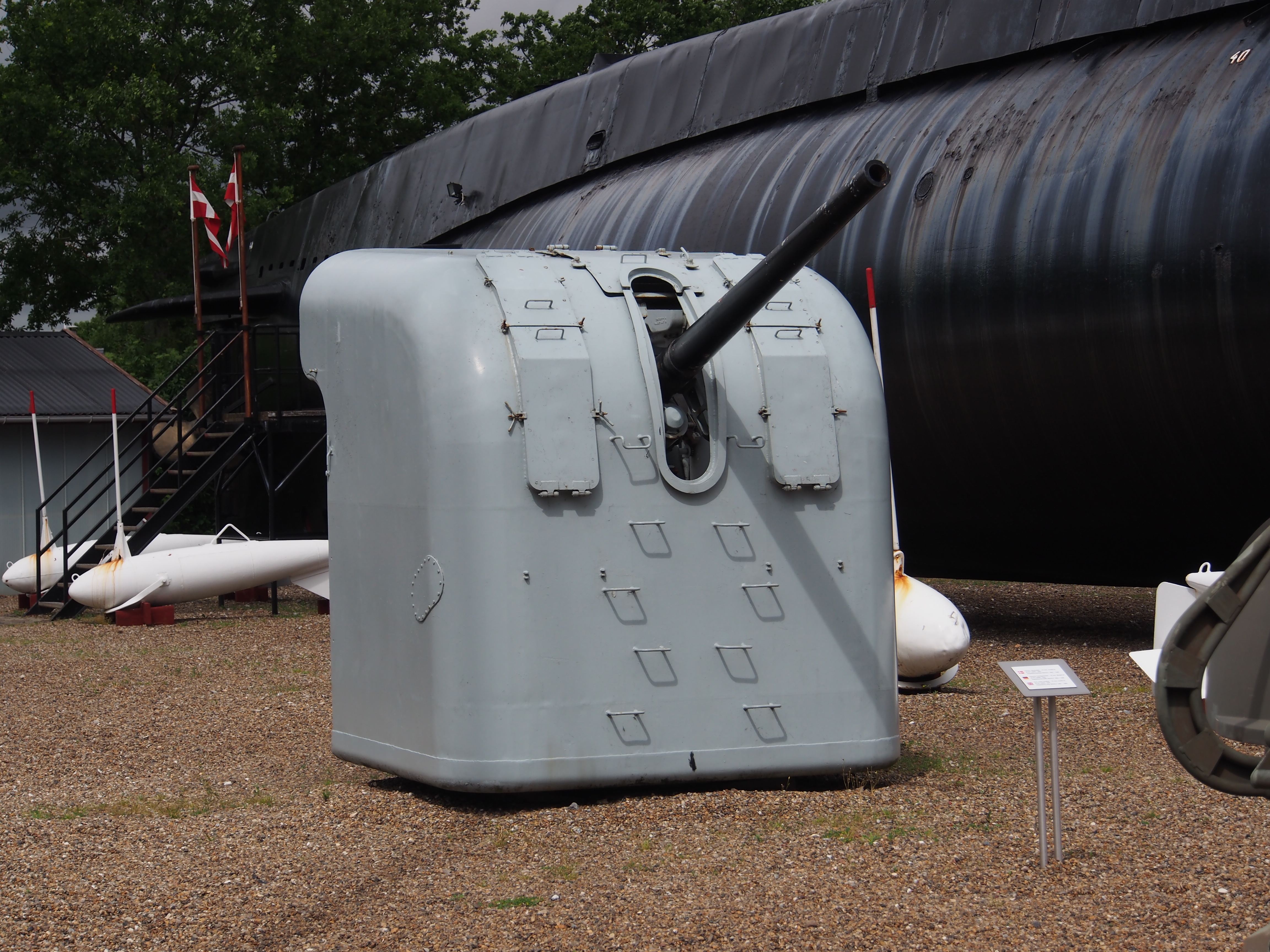 76 mm Gun K M/61 LvSa aka 3 inch/50 Mark 22 in Mark 22 Mounting photographed at Aalborg Søfarts- og Marinemuseum, Denmark